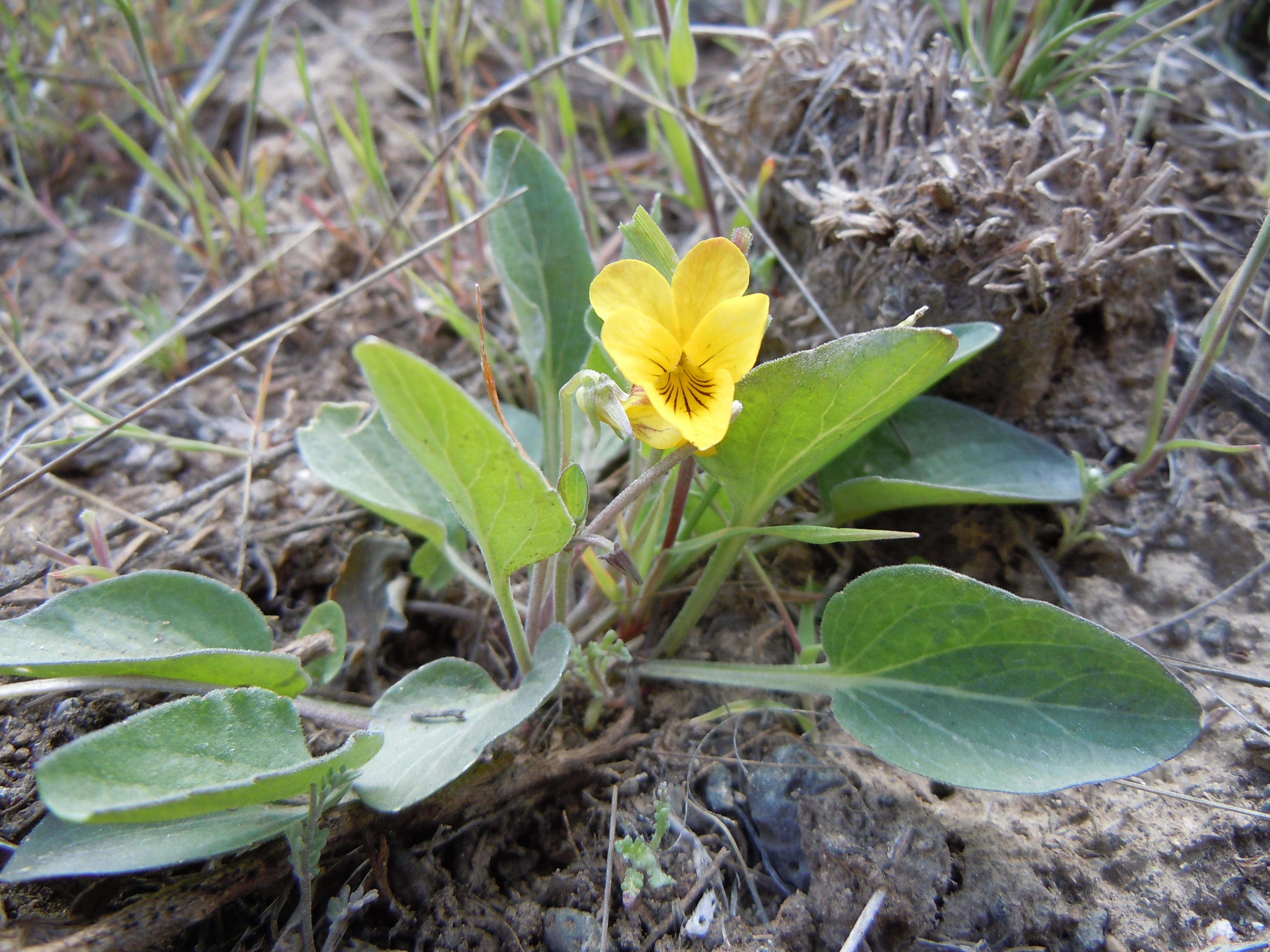 This herb is most conspicuous in flower during the very early summer but the leaves persist throughout much of June on an average year.